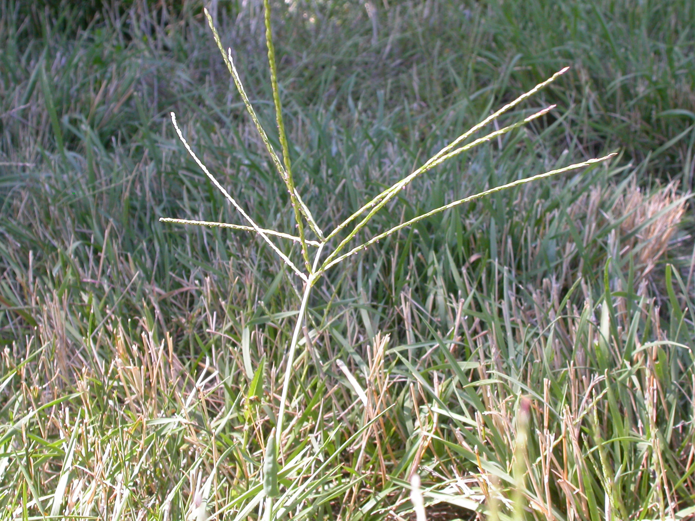 The inflorescence of Digitaria comprises digitately arranged spikes with spikelets in a secund arrangement.